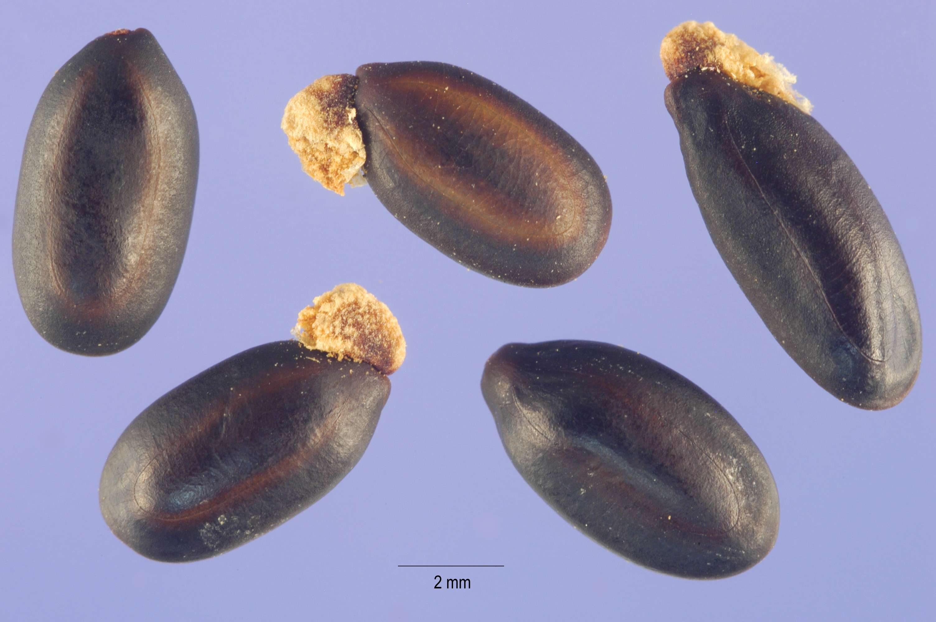 Cootamundra Wattle. Seeds. Richmond, Australia.